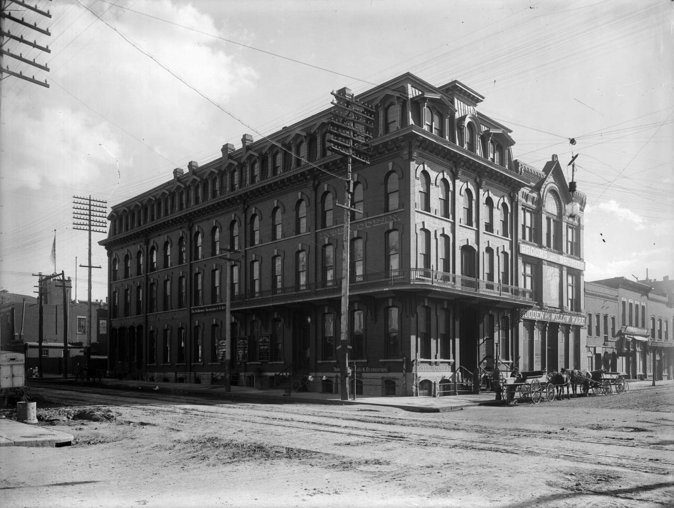 Inter-Ocean Hotel, 1436 16th Street, Denver, Colorado, opened in 1873